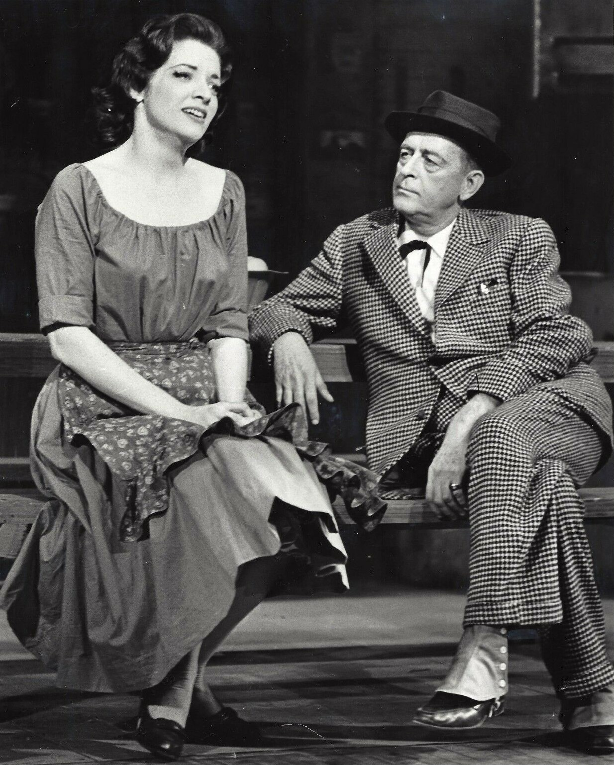 Joan Fagan & Eddie Foy Jr. in the Broadway's musical Donnybrook! - publicity still (cropped)